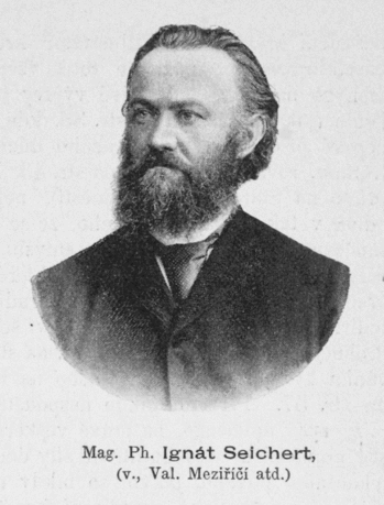 Portrait of Ignác Seichert (1847-1909), captioned as Ignát Seichert, Czech politician.